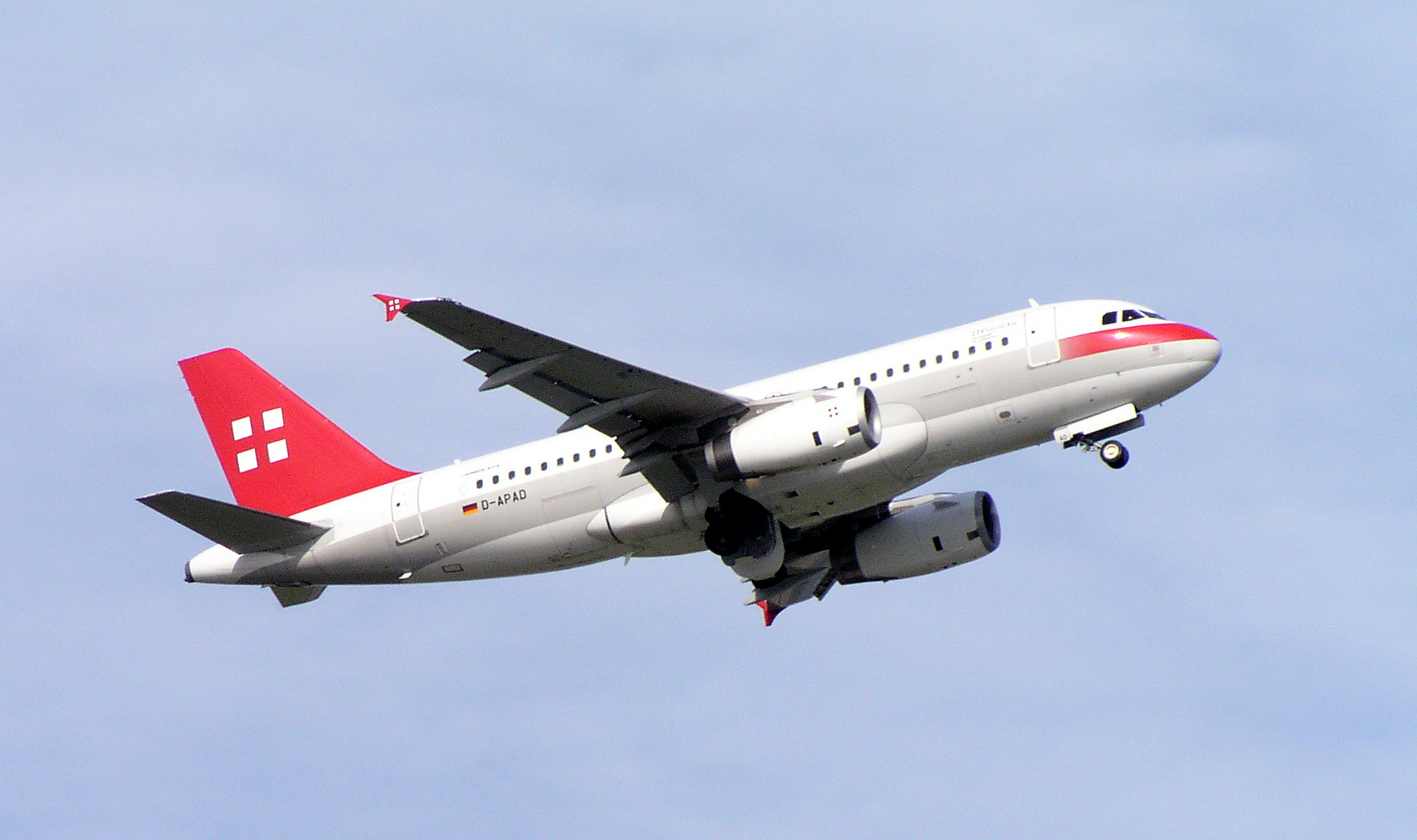 Privatair Airbus A319-100LR D-APAD Description: A Privatair Airbus A319-100LR departing at Düsseldorf Airport, 2004-09-08. Source: Selbst fotografiert Photographer: Arcturus Licence: GFDL-self + cc-by-sa-2.0-de